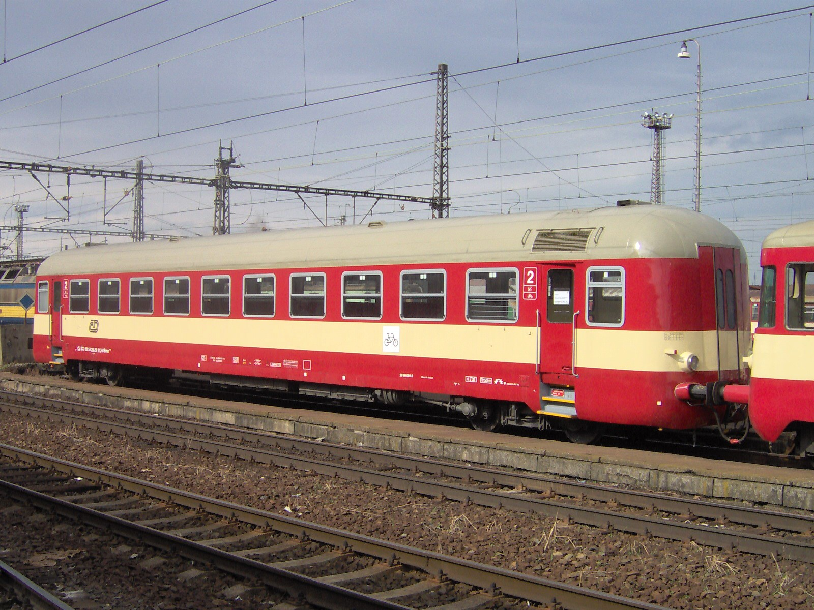 Railway coach 050.113, Olomouc main station, Czech Republic